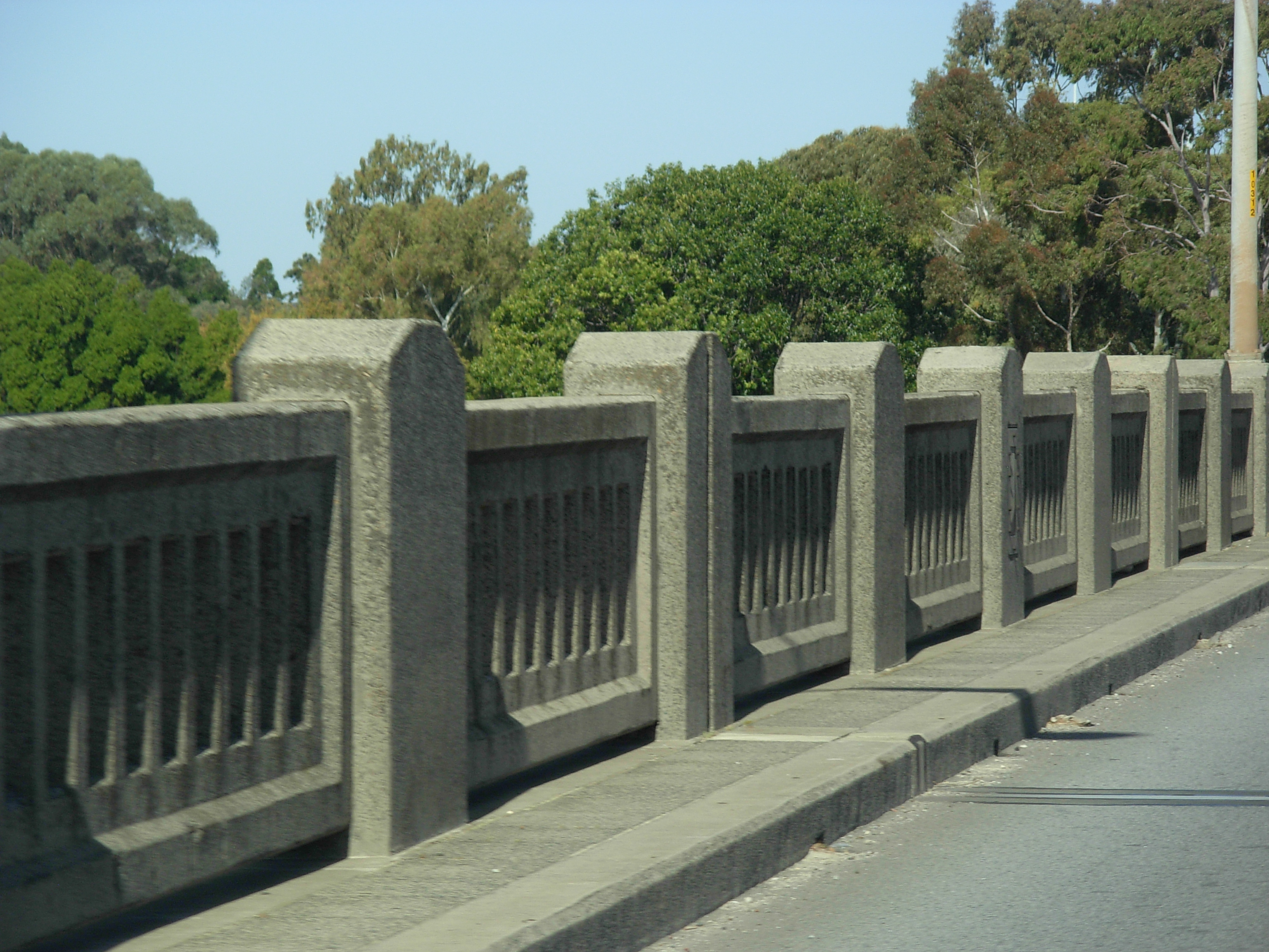 Eastern side railing of south eastern part of the Causeway, Perth, Western Australia